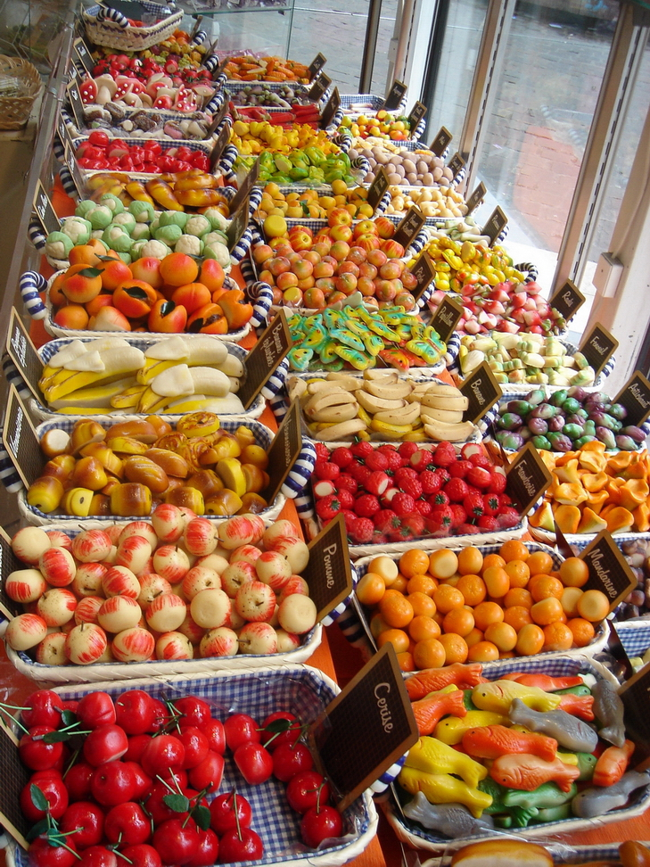 Marzipan fruits in Paris